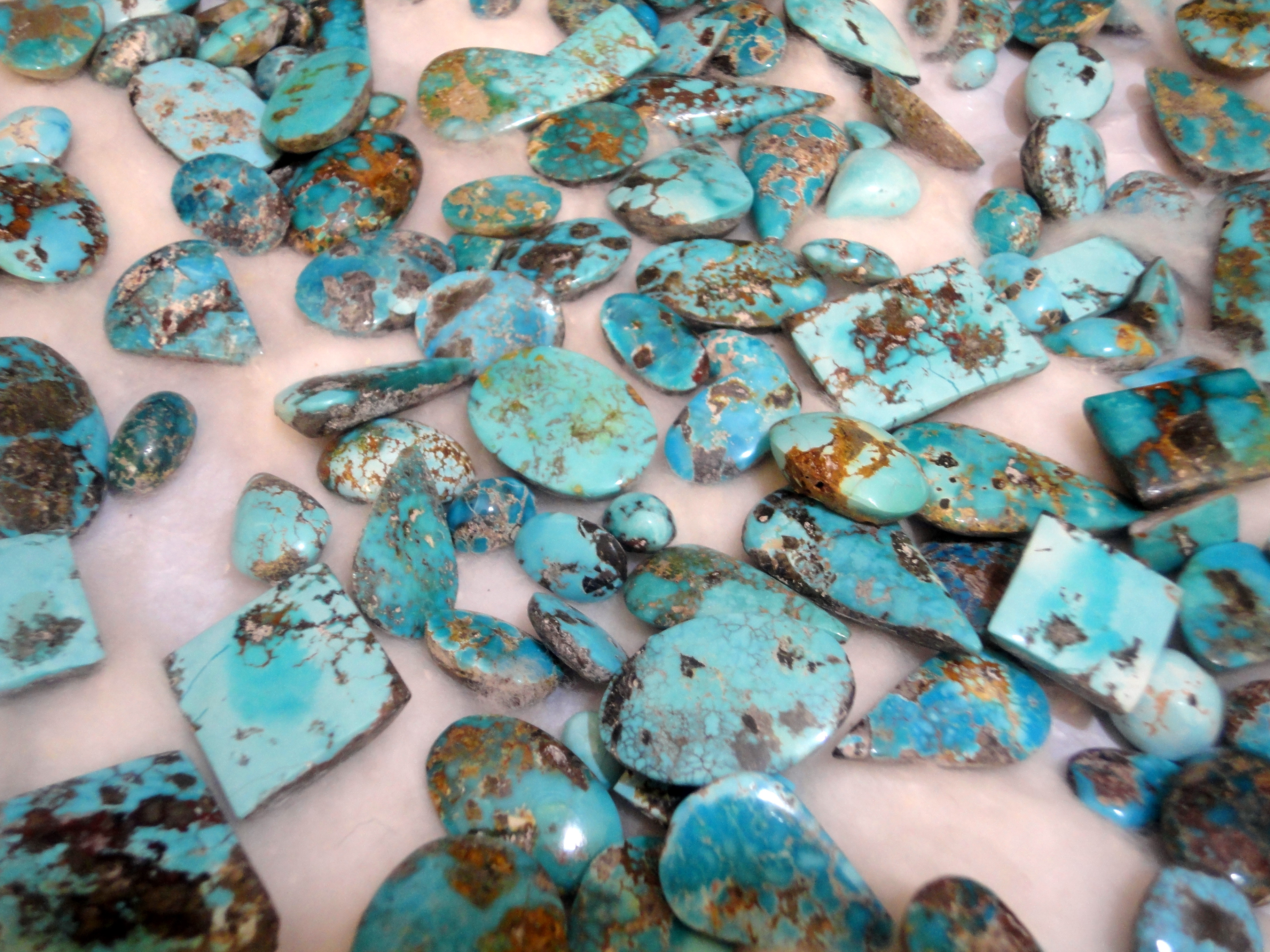 Turquoise of Nishapur - village of Ma'dan